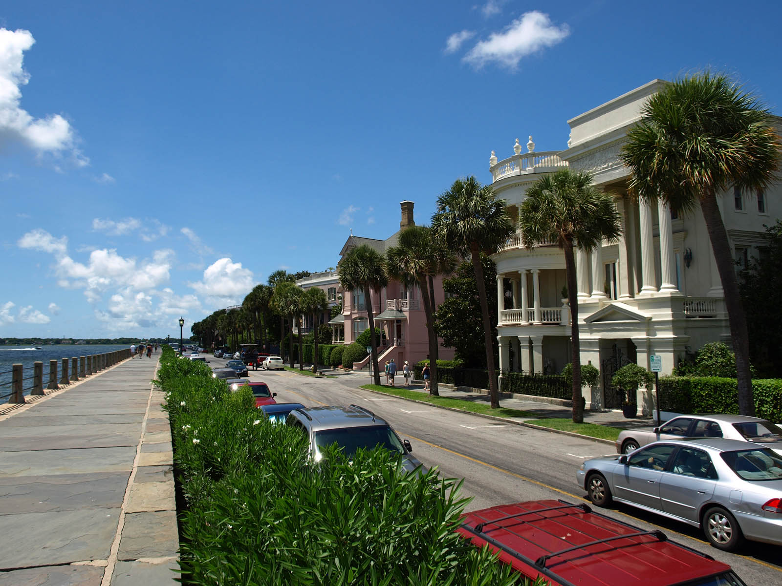 Homes on East Battery Street in Charleston, South Carolina